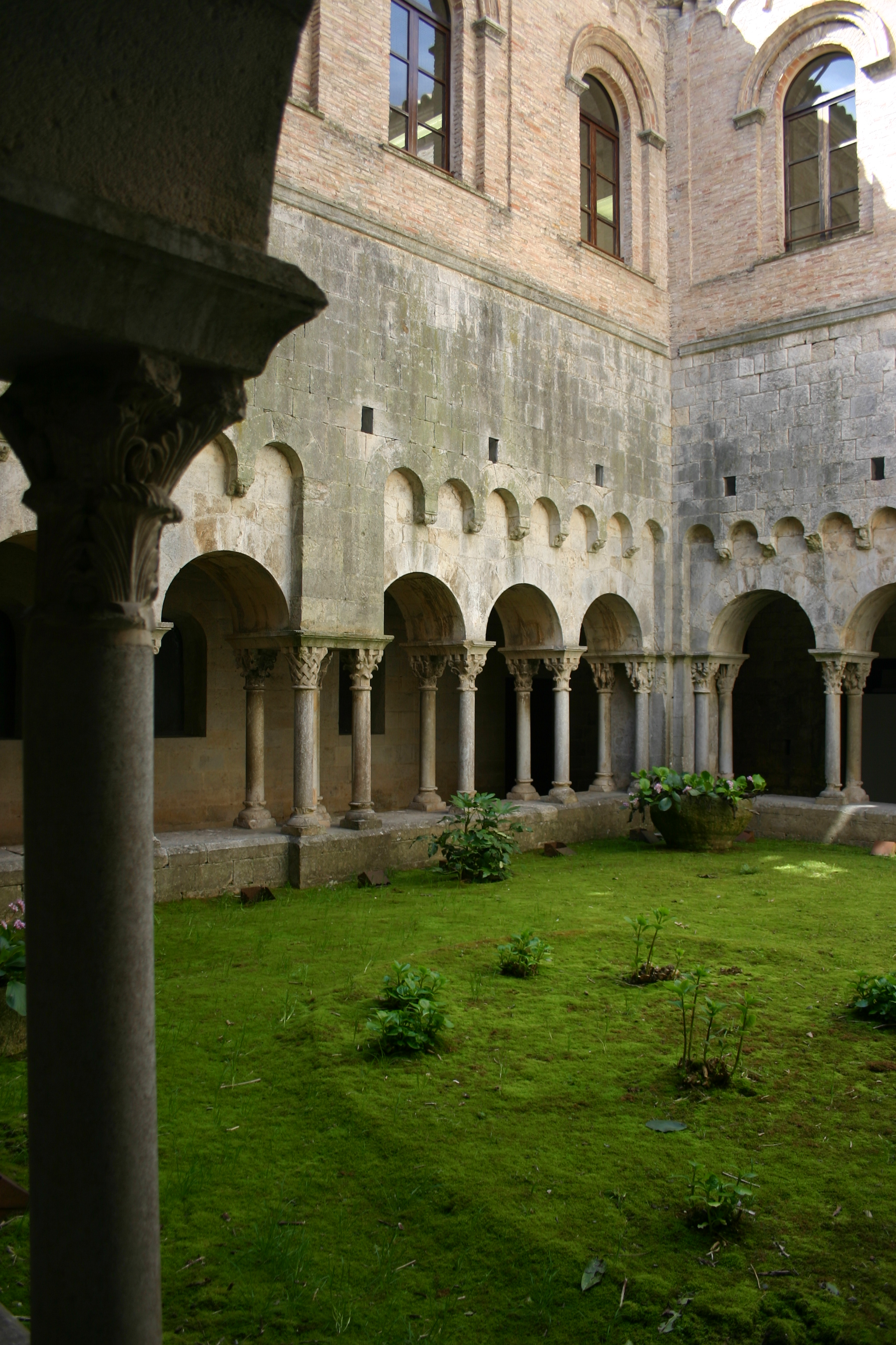 Girona's Arqueology Museum of Catalonia, Catalonia (Spain).